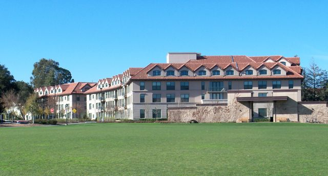 Munger Graduate Residences at Stanford University from the Wilbur Field side